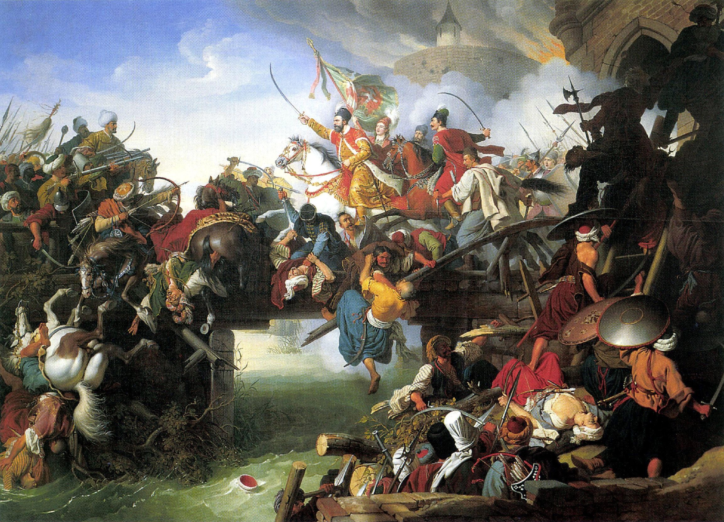 Nikola Šubić Zrinski's Charge from the Fortress of SzigetvárOil on canvas, 455 x 645 cm The scene is the sortie of Count Nikola Šubić Zrinski, Ban (Viceroy) of Croatia, and his men, the heroic defenders of the castle of Szigetvár, against the besieging Turks in 1566, in which Zrinski lost his life. The painting had been commissioned by the Vienna court, and currently held at the Hungarian National Gallery in Budapest.